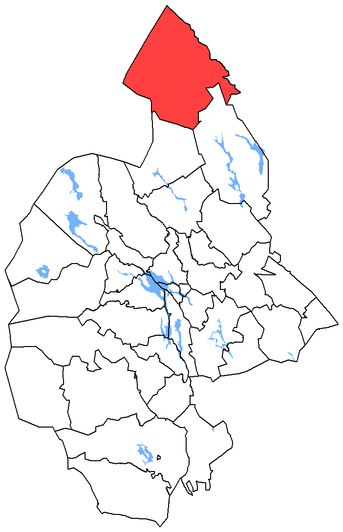 Frostviken municipality of Jämtland County 1952.